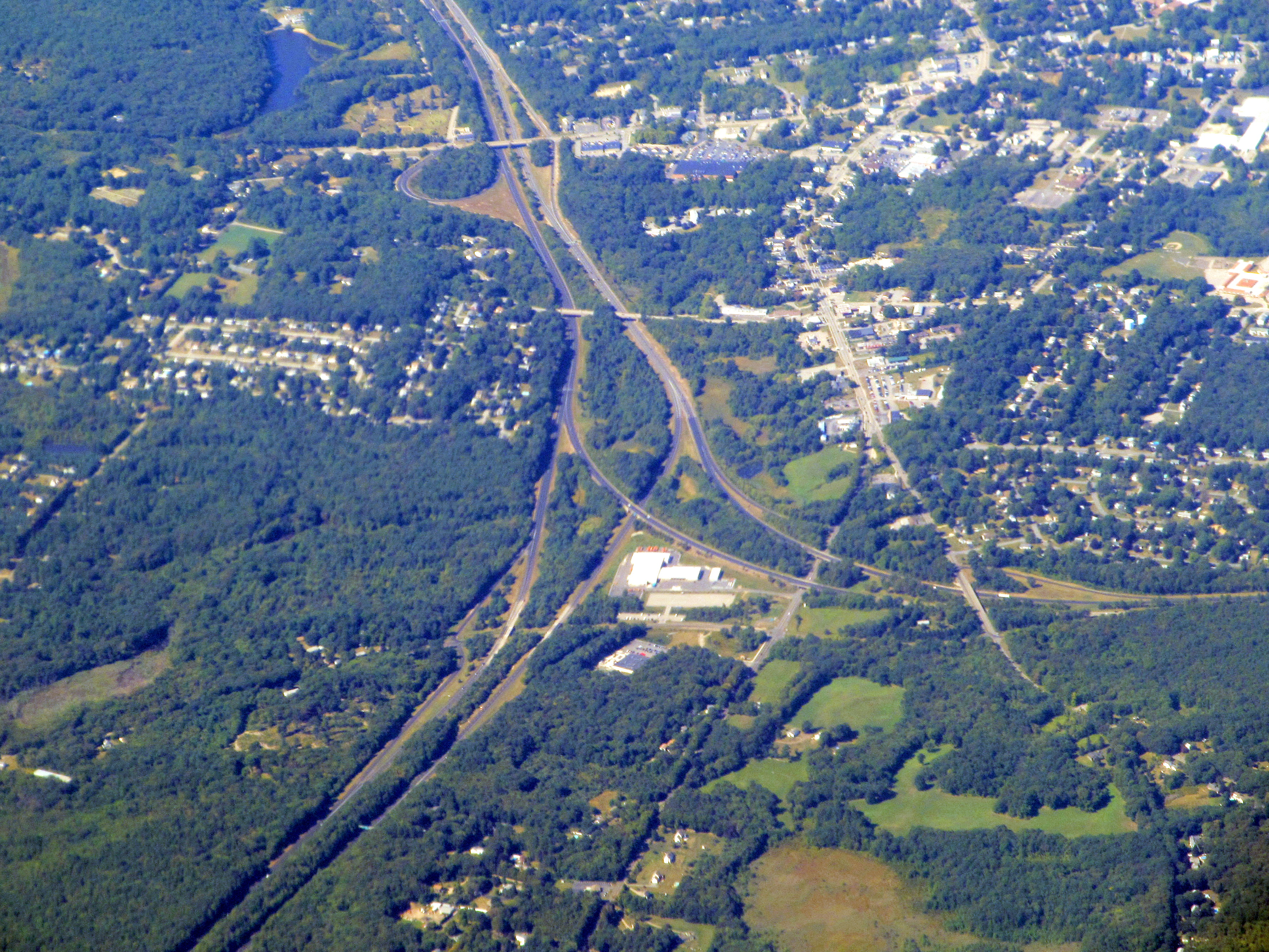 Aerial view of the split between Route 2 and Route 11 in Connecticut in September 2015